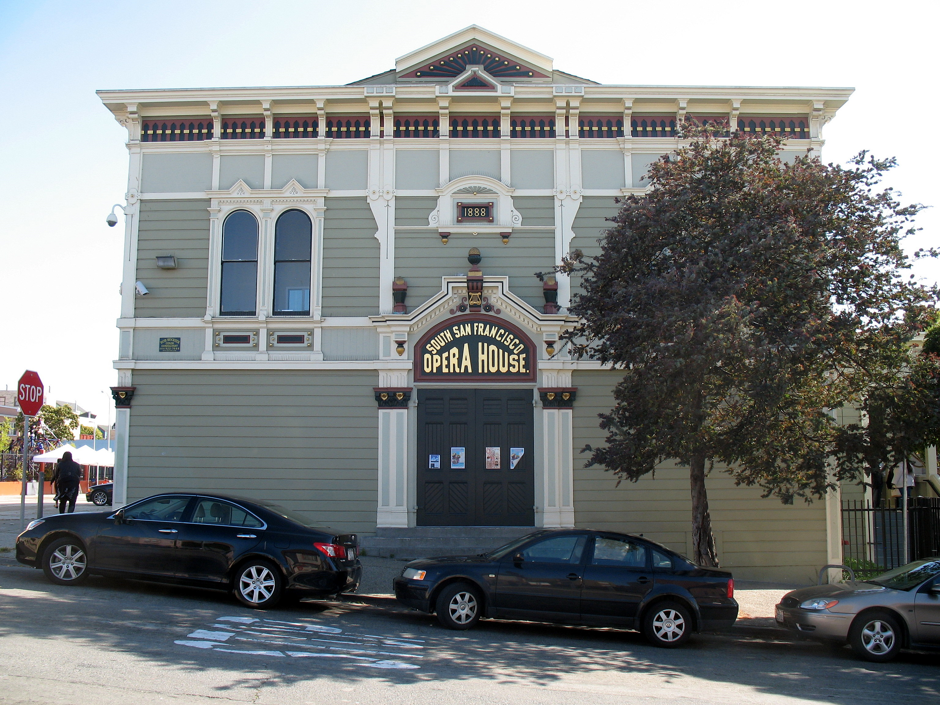 National Register of Historic Places listings in San Francisco, California. South San Francisco Opera House, 1601 Newcomb Ave., San Francisco, California